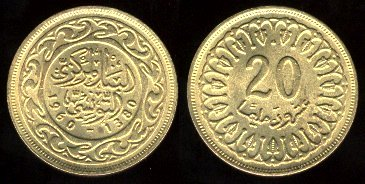 20 Tunisian millimes, 1960, Tunisia